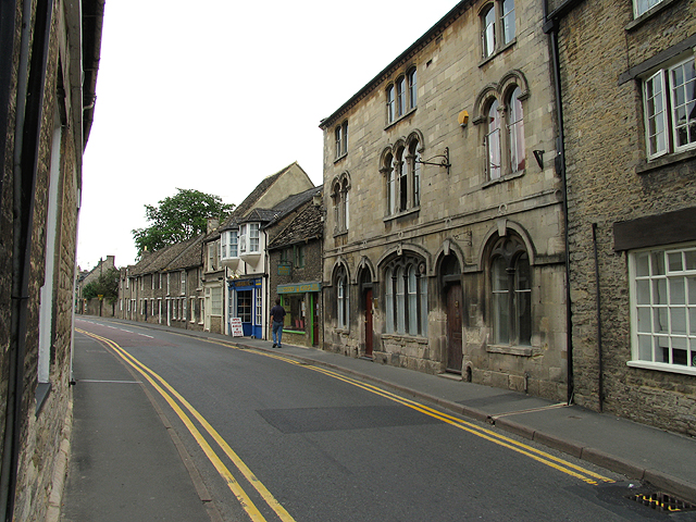 A417 to Lechlade. London Street, Fairford, leading to Lechlade. Looking more or less east south east along the street.